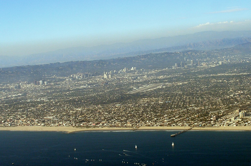 The Westside of the Los Angeles area, as photographed from a flight departing Los Angeles International Airport on August 10, 2006. Photographed and uploaded by user Coolcaesar